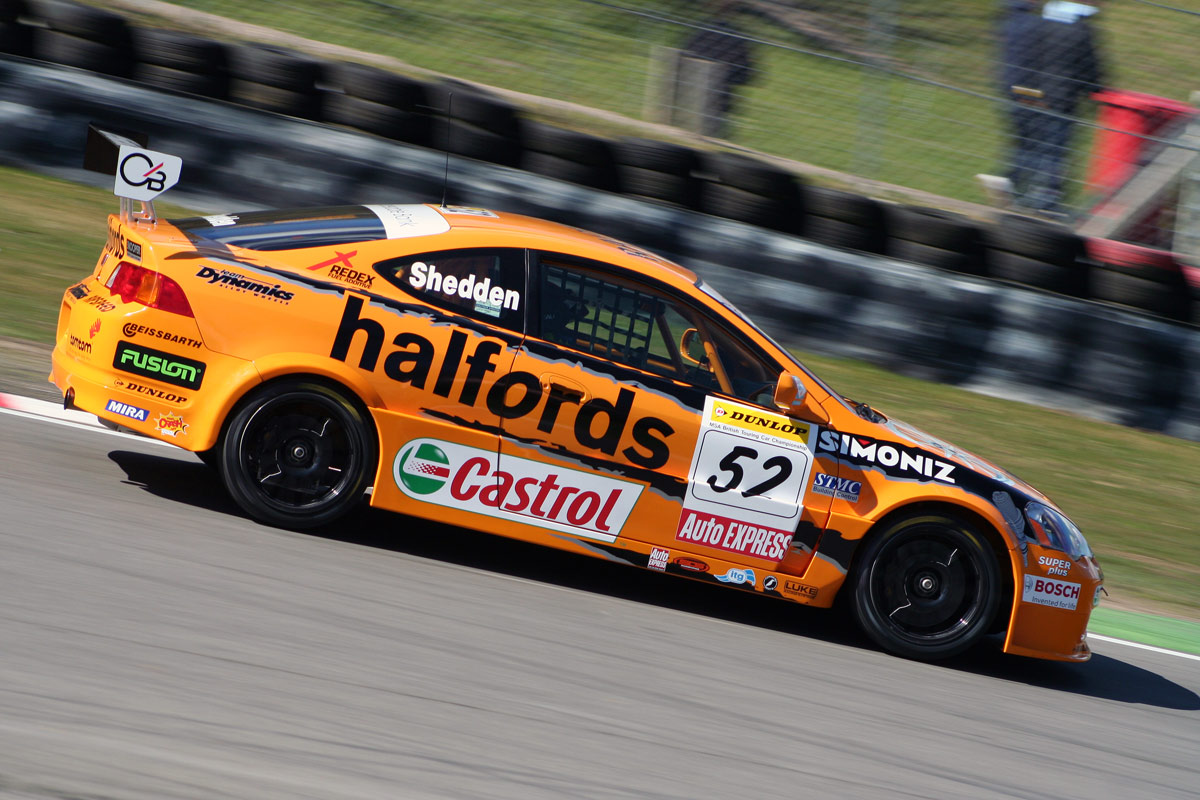 Gordon Shedden driving a Honda at the Brands Hatch round of the 2006 British Touring Car Championship.